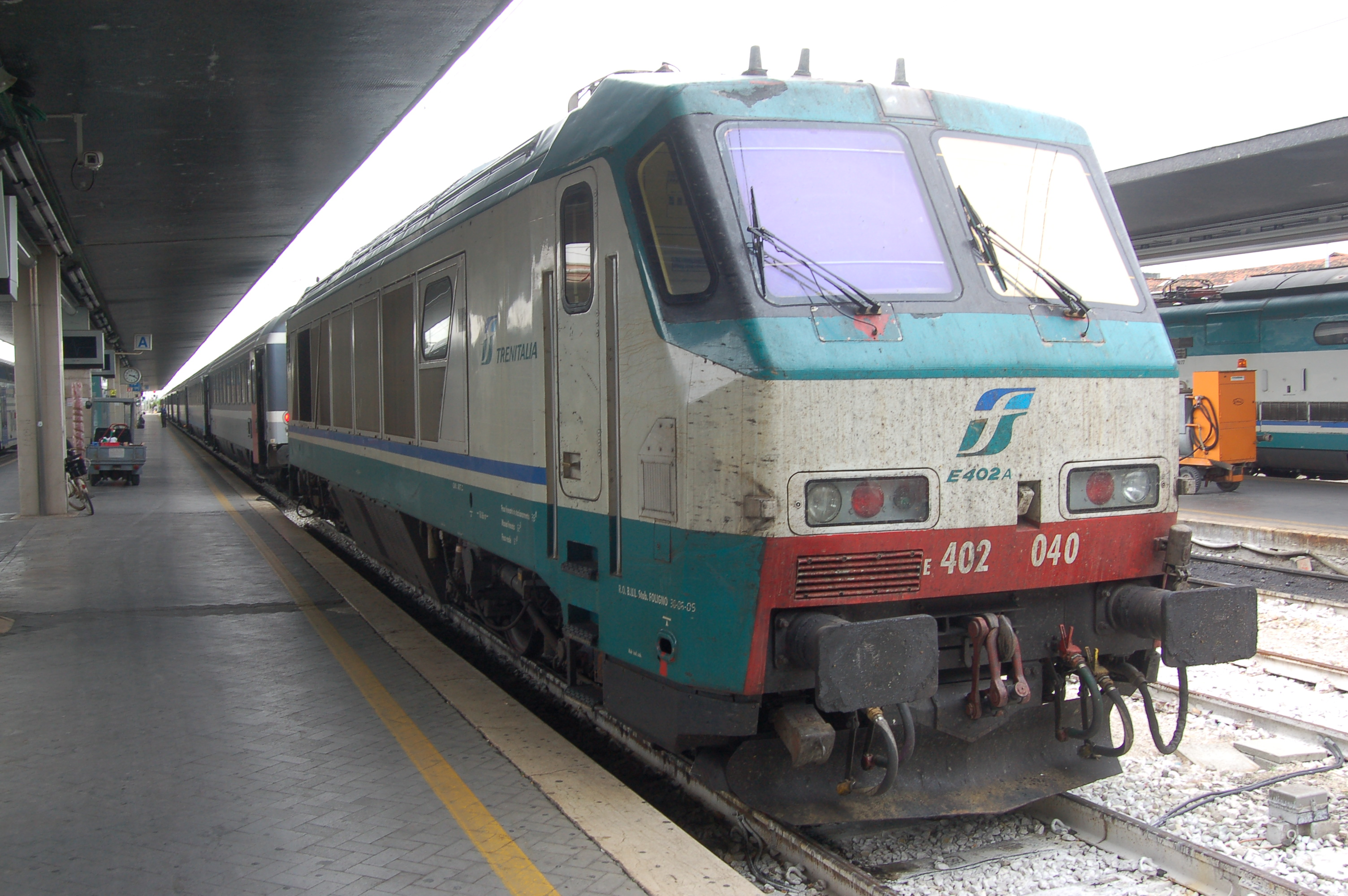 Trenitalia electric locomotive E402.040 at Venezia Santa Lucia, Italy.